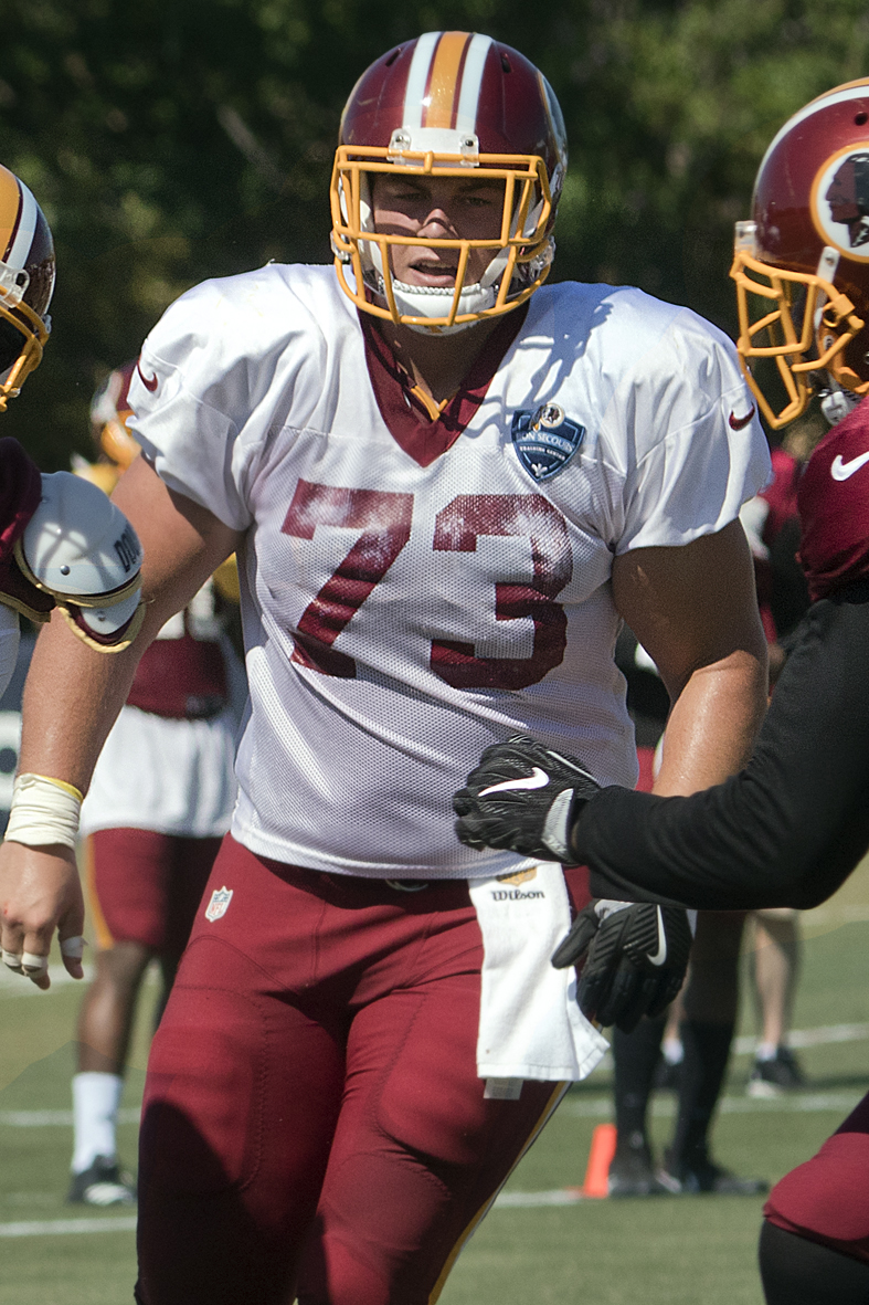 Chas Roullier at Washington Redskins training camp, Richmond, Virginia